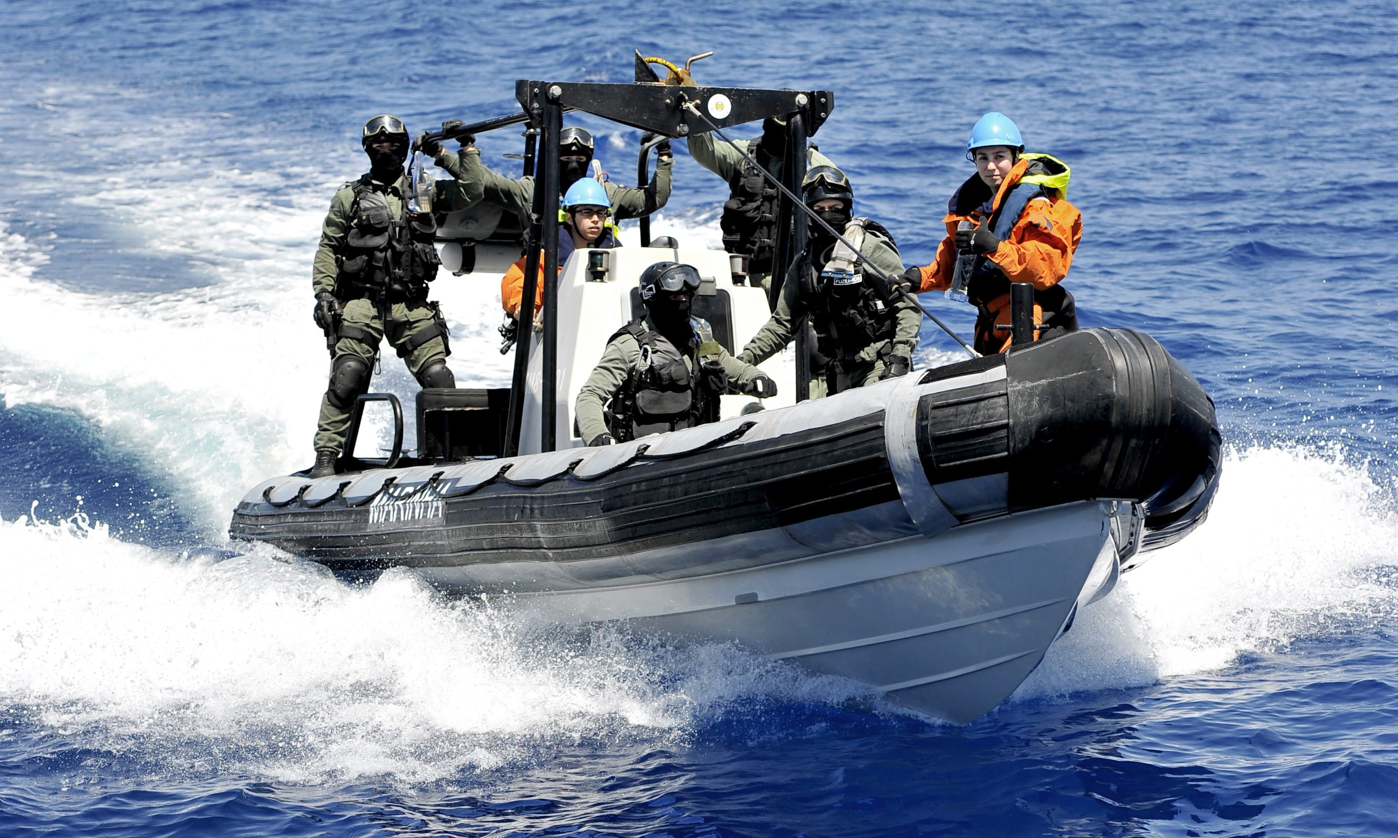 MEDITERRANEAN SEA (May 21, 2010) Spanish marines depart the Spanish navy Descubierta-class corvette SPS Infanta Elena (P 76) during a visit, board, search and seizure (VBSS) drill in the Mediterranean Sea during Phoenix Express 2010 (PE-10). PE-10 aims to improve maritime safety and security in the Mediterranean Sea through increased interoperability and cooperation among regional partners from Africa, Europe and the United States. (U.S. Navy photo by Mass Communication Specialist 2nd Class John Hulle/Released) Note: The original caption is wrong as the frigate showned is the Portuguese NRP Bartolomeu Dias (F333) and the boat is from the "Marinha Portuguesa" and the VBSS team is from the Portuguese Fuzileiros (marines)